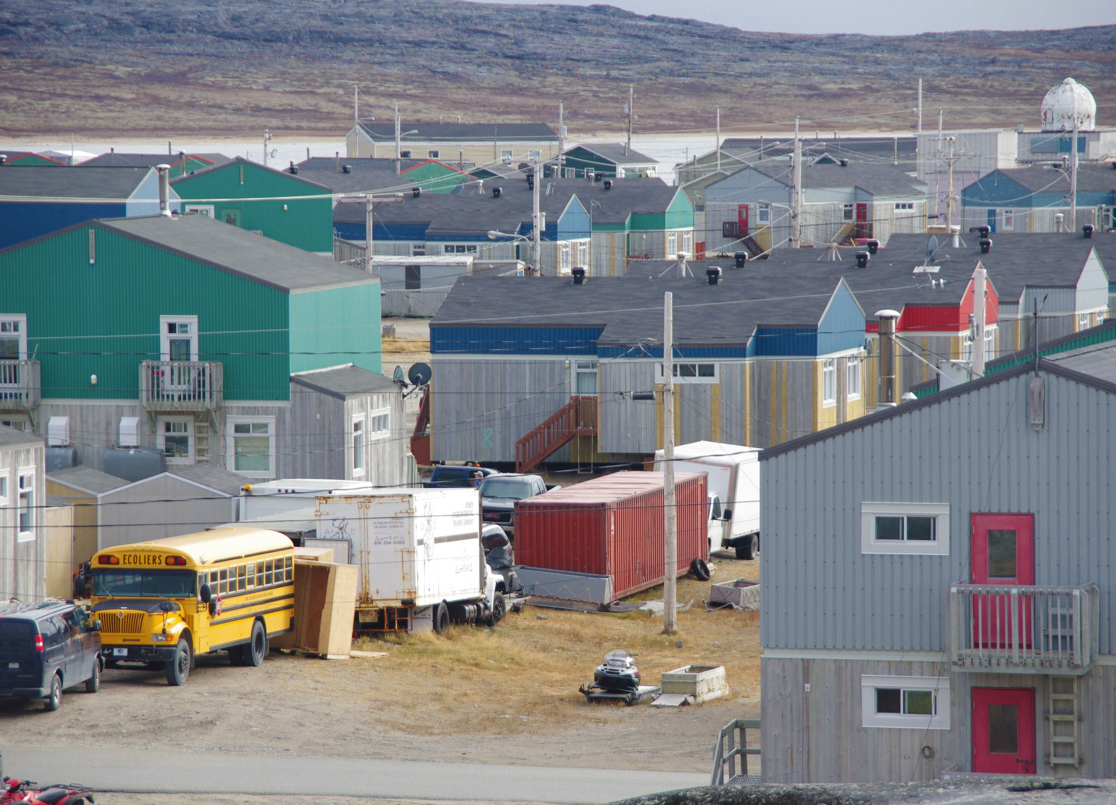 shot of housing, typical in the north of Quebec